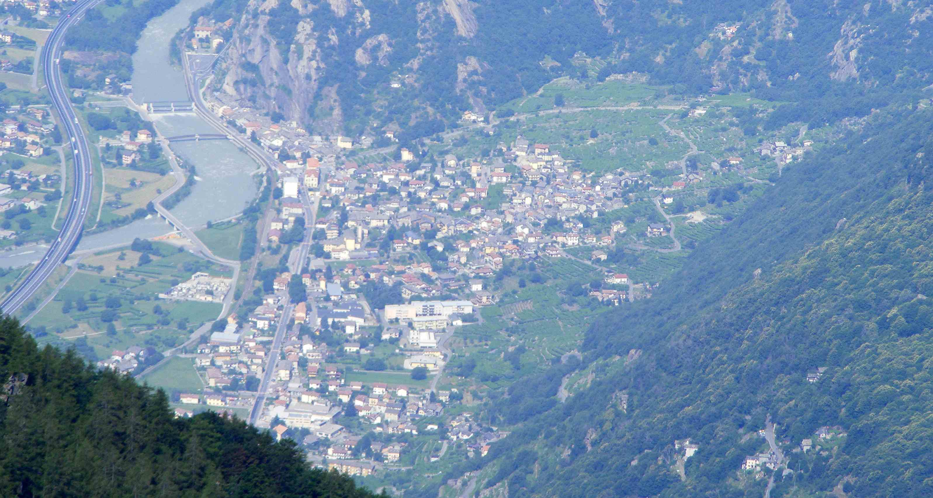 Donnas (AO, Italy) from Bec di Nona; on the left Dora Baltea river